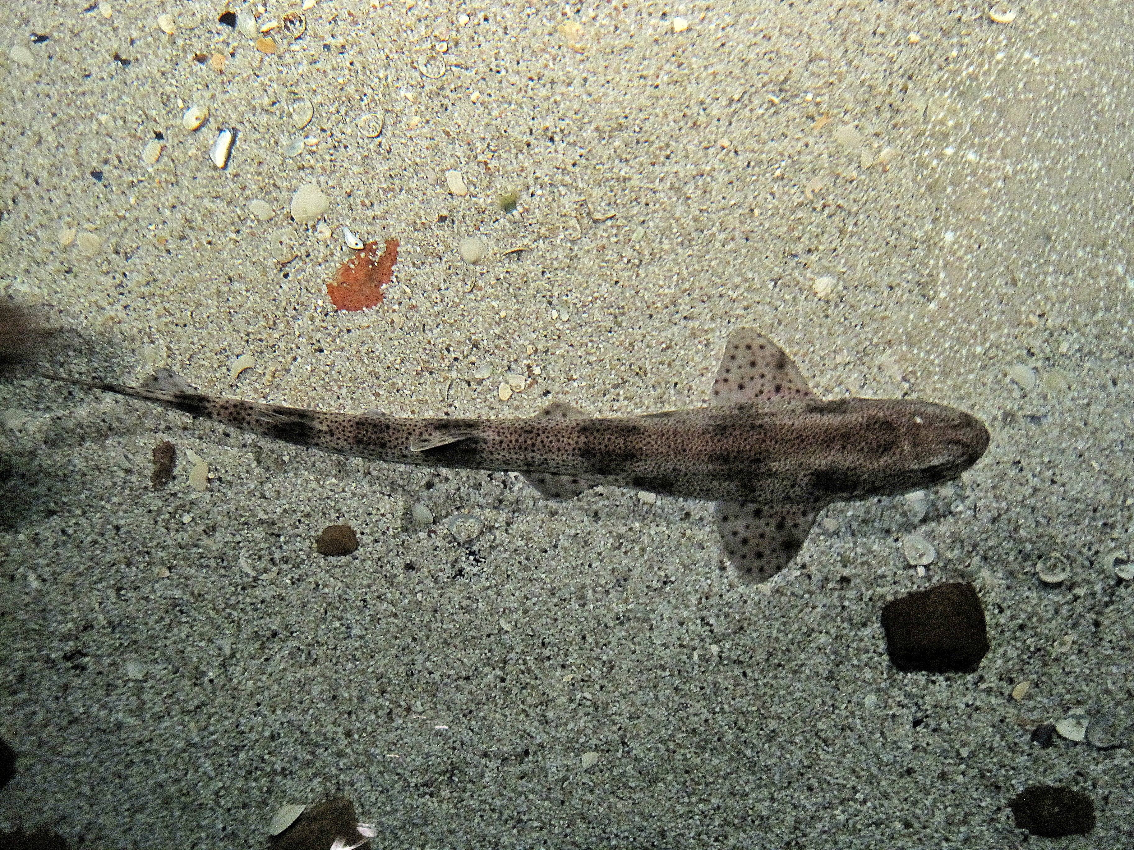 Scyliorhinus canicula (Small-spotted catshark or dogfish), Ecomare, Texel, the Netherlands